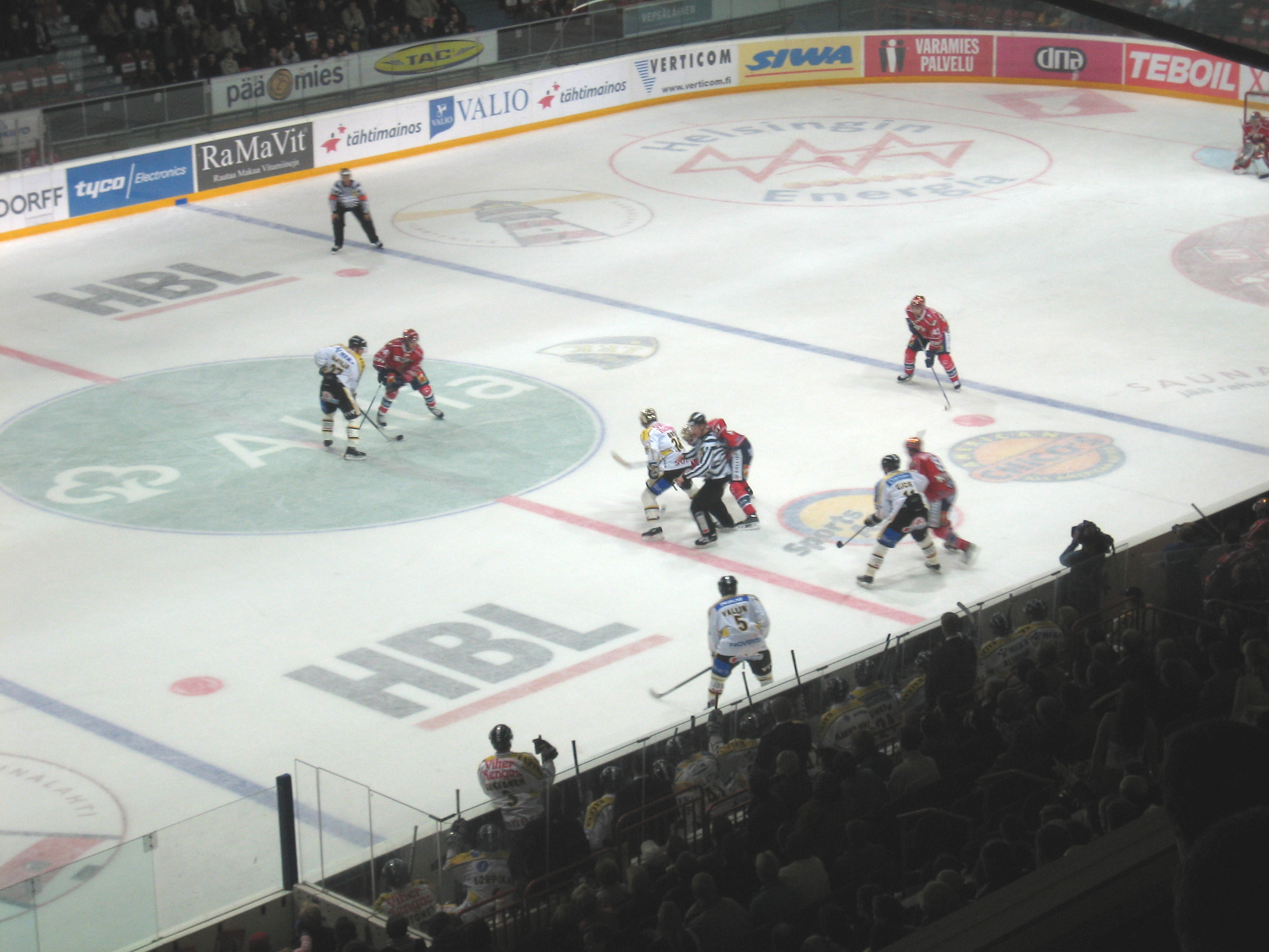 SM-Liiga match Helsingin IFK – Oulun Kärpät in Helsinki Ice Hall on October 6, 2005.